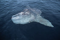 A mola mola, or ocean sunfish, lying horizontal to the ocean surface